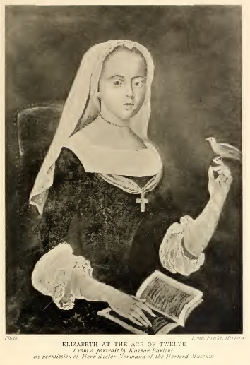 Elisabeth of Bohemia-Palatinate at age 12 from A Sister of Prince Rupert by E. Godfrey. According from the text the original painting this photo is based off of was painted by Kaspar Barlens and is located in the Herford Museum.